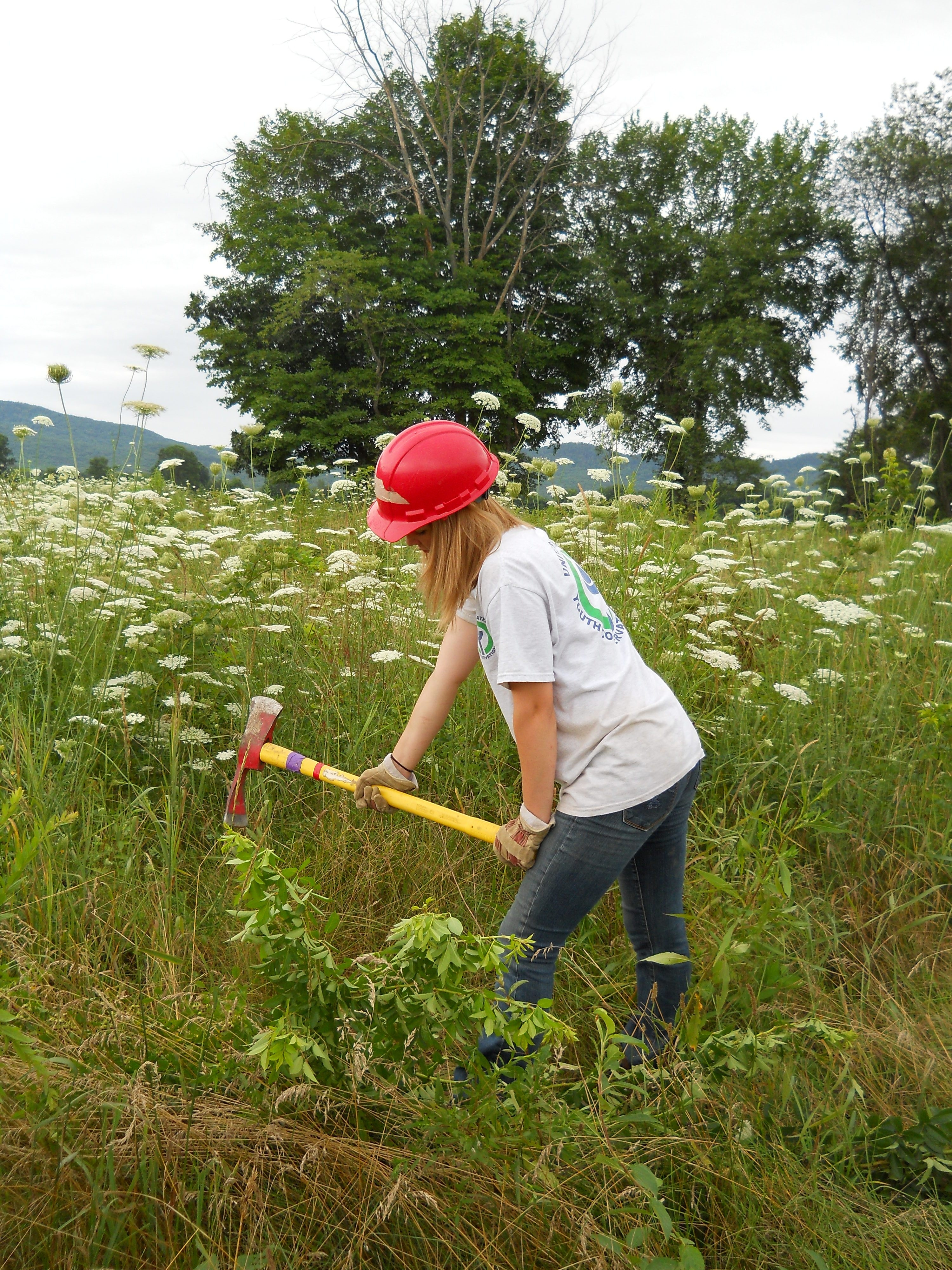 A YCC crew member controls multiflora rose at the Silvio O. Conte National Fish and Wildlife Refuge.